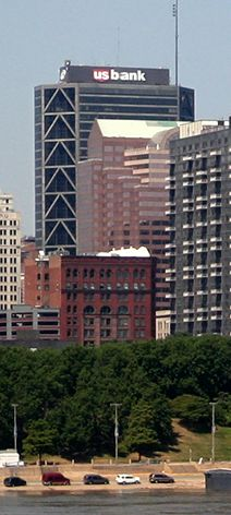 One US Bank Plaza Clipped from Wikipedia photo uploaded by CillanXC